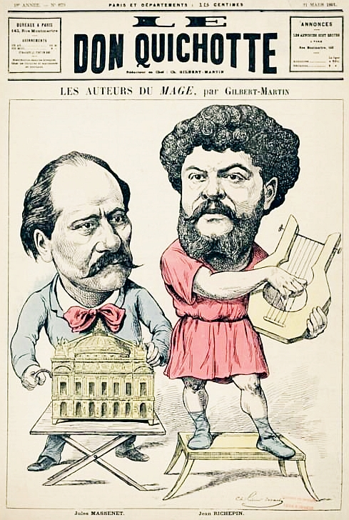 Jules Massenet and Jean Richepin (the last as Apollo Citharoedus), authors of Le Mage, premiered at the Opéra-Comique in Paris on 16 March 1891. Illustration by Charles-Gilbert Martin (1839-1905) on the cover of Le Don Quichotte, 31 March 1891.